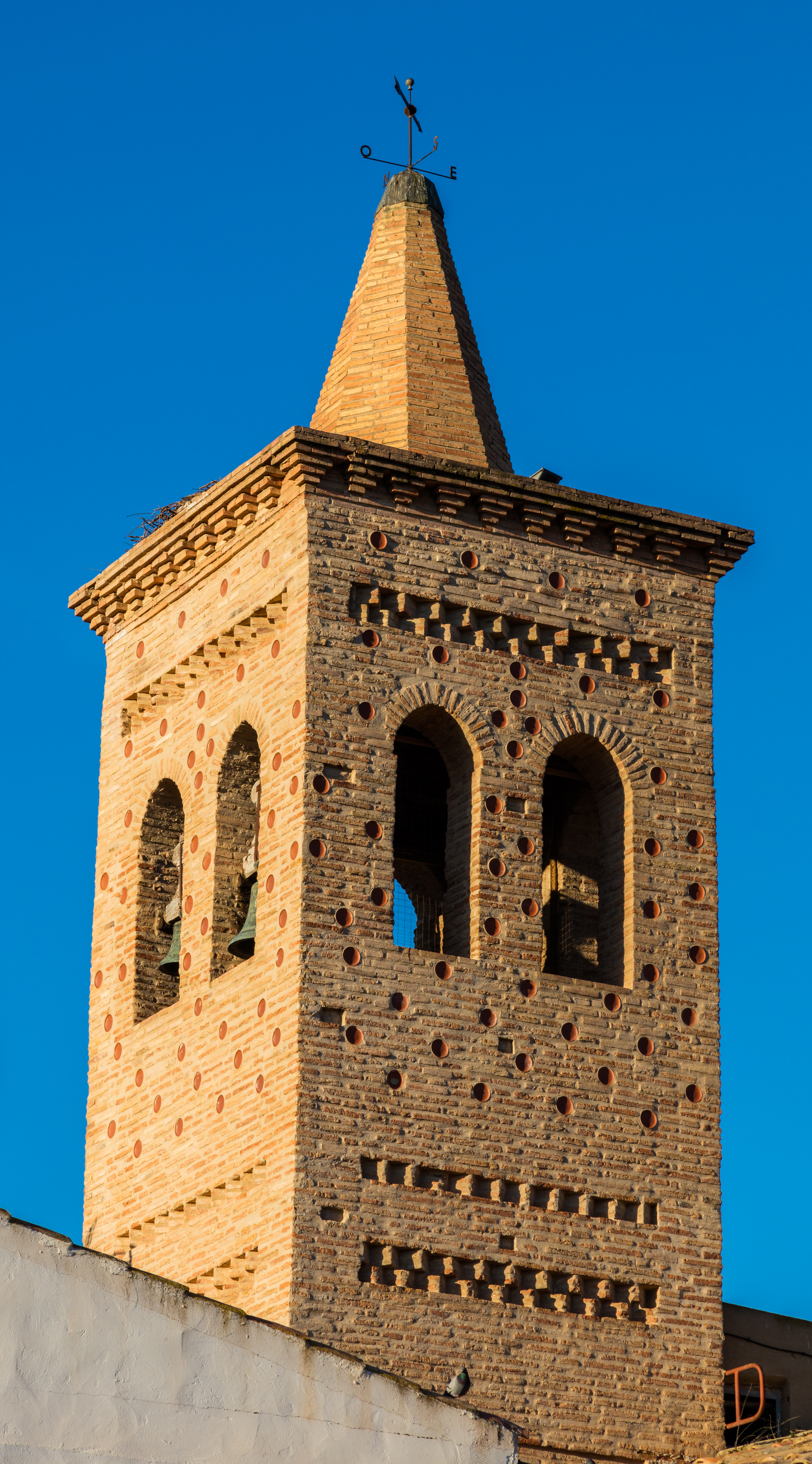 Church of the Assumption of Our Lady, Bárboles, Saragossa, Spain